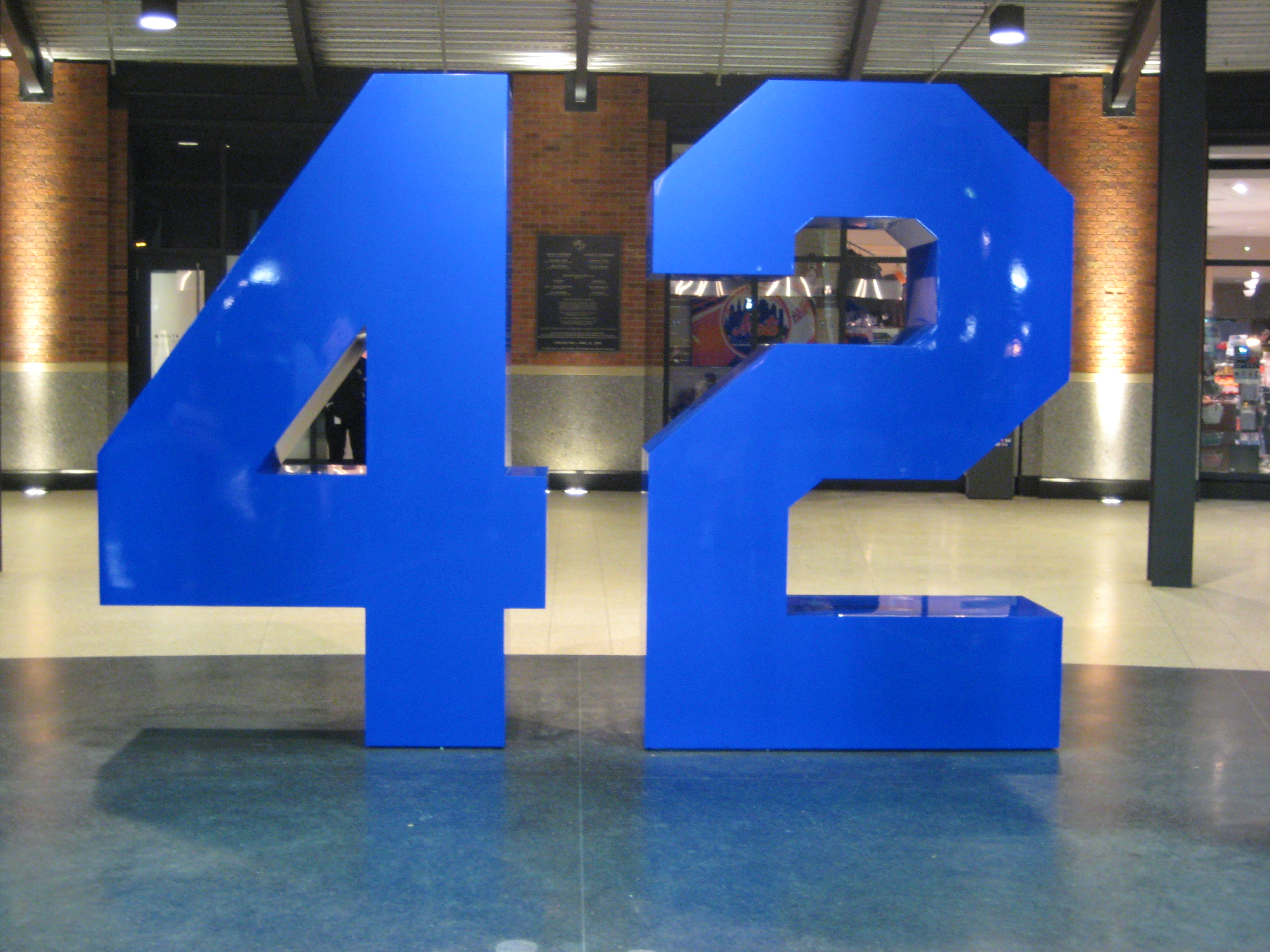 The Jackie Robinson memorial inside the Jackie Robinson rotunda at Citi Field. The object is a simple 3D conceptualisation of 2D text, which offers no originality for copyright protection.